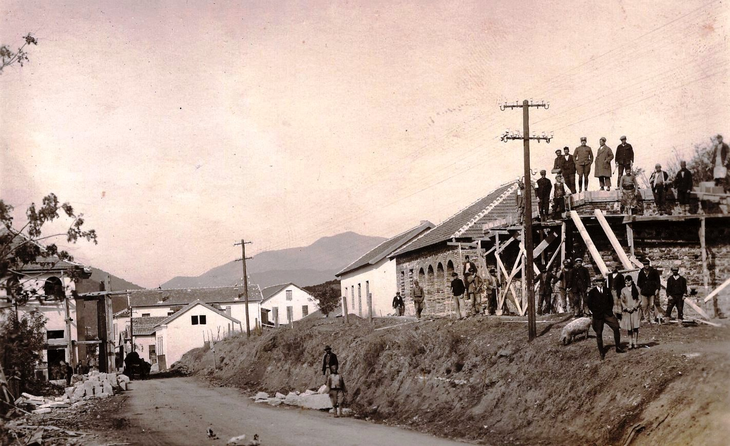 Village Udovo, 1931 This media file is produced by Wikipedian in Residence in Category:Wikipedian in Residence at DARM in 2016.